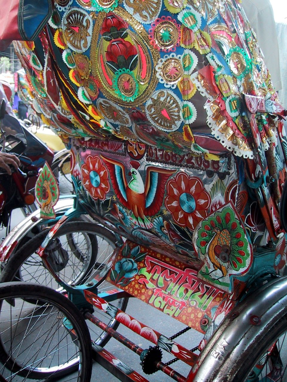 Ricksha